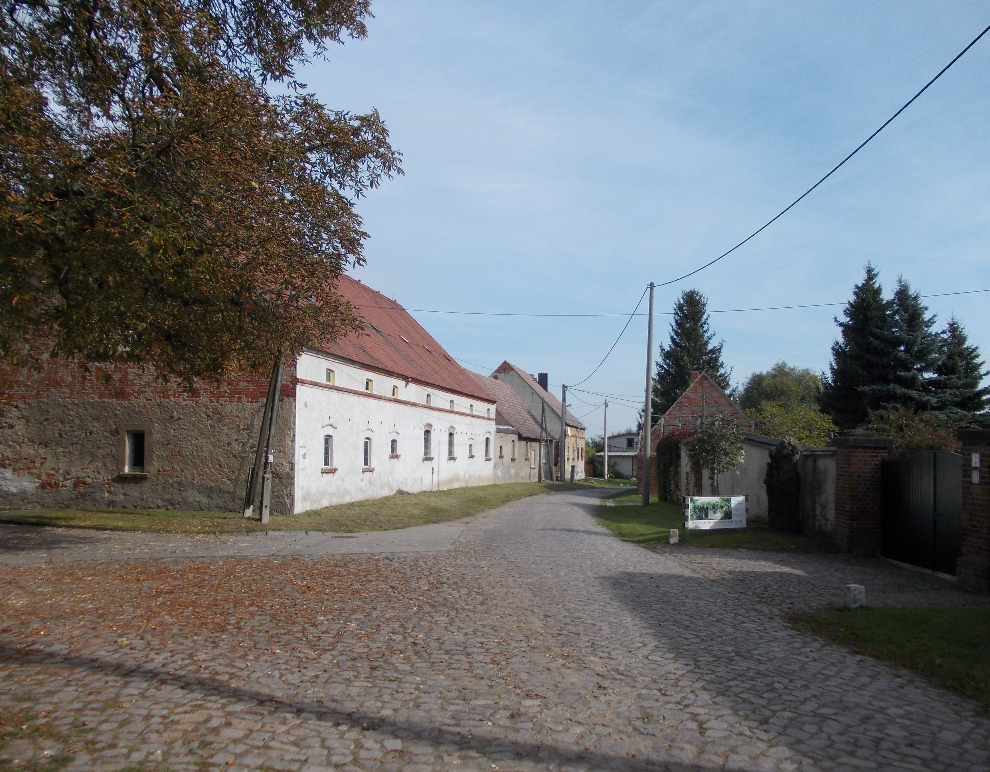 Elbstrasse in Kathewitz (Arzberg, Nordsachsen district, Saxony)